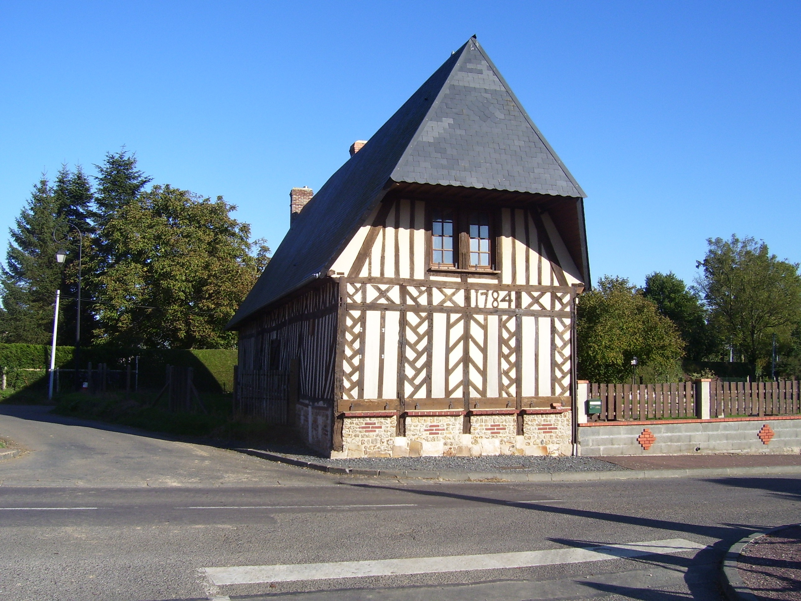 Timber framed building from 1784 in Boissy-Lamberville (Eure, Haute-Normandie) in France.